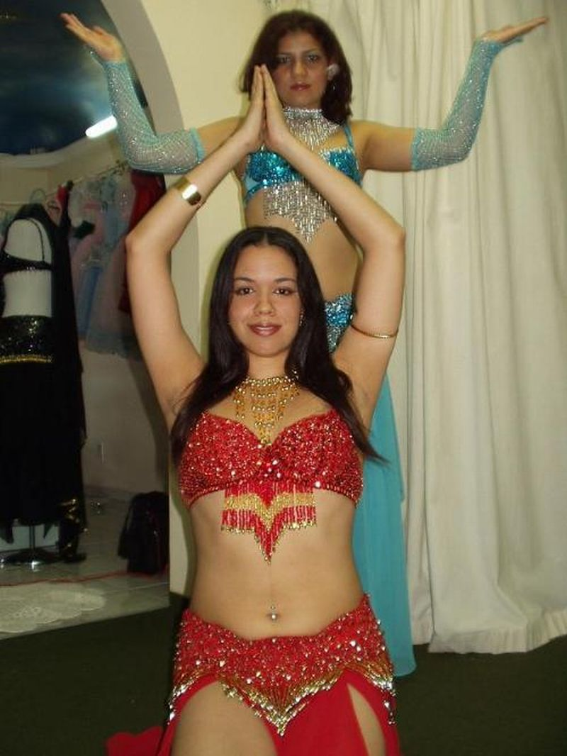 Belly dance by Brazilian dancers at Patio Brasil Shopping, Brasília, Brazil.